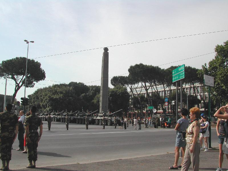 The military parade on the Festa della Repubblica passing by the Obelisk of Axum, which was in Rome's Porta Capena Square (1937–2004).